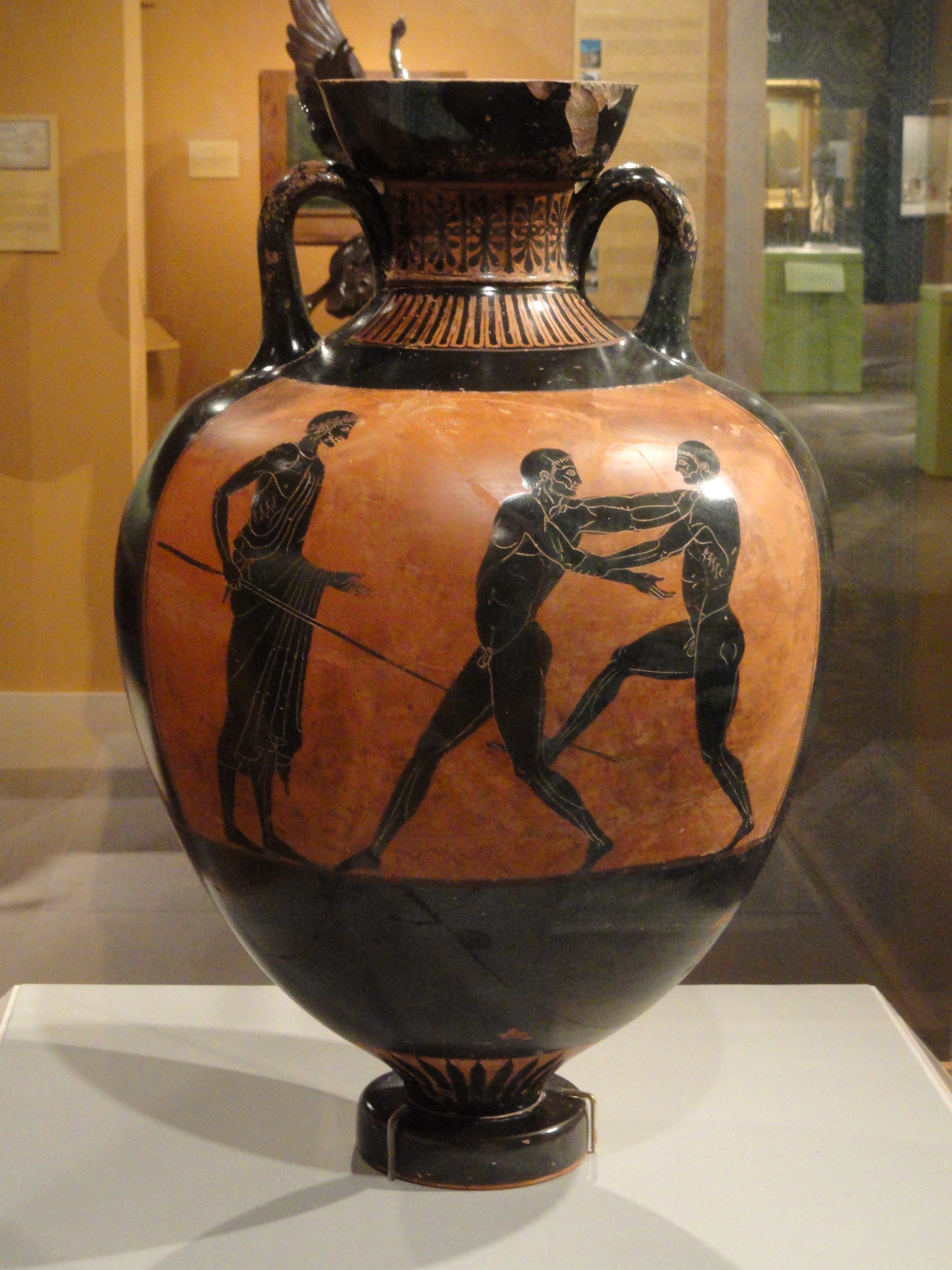 Panathenaic Amphora by the Berlin Painter, inscribed TON ATHENETHEN ATHLON, c. 480-470 BC, earthenware with slip decoration. Exhibited in the Hood Museum of Art, Dartmouth College, Hanover, New Hampshire, USA.